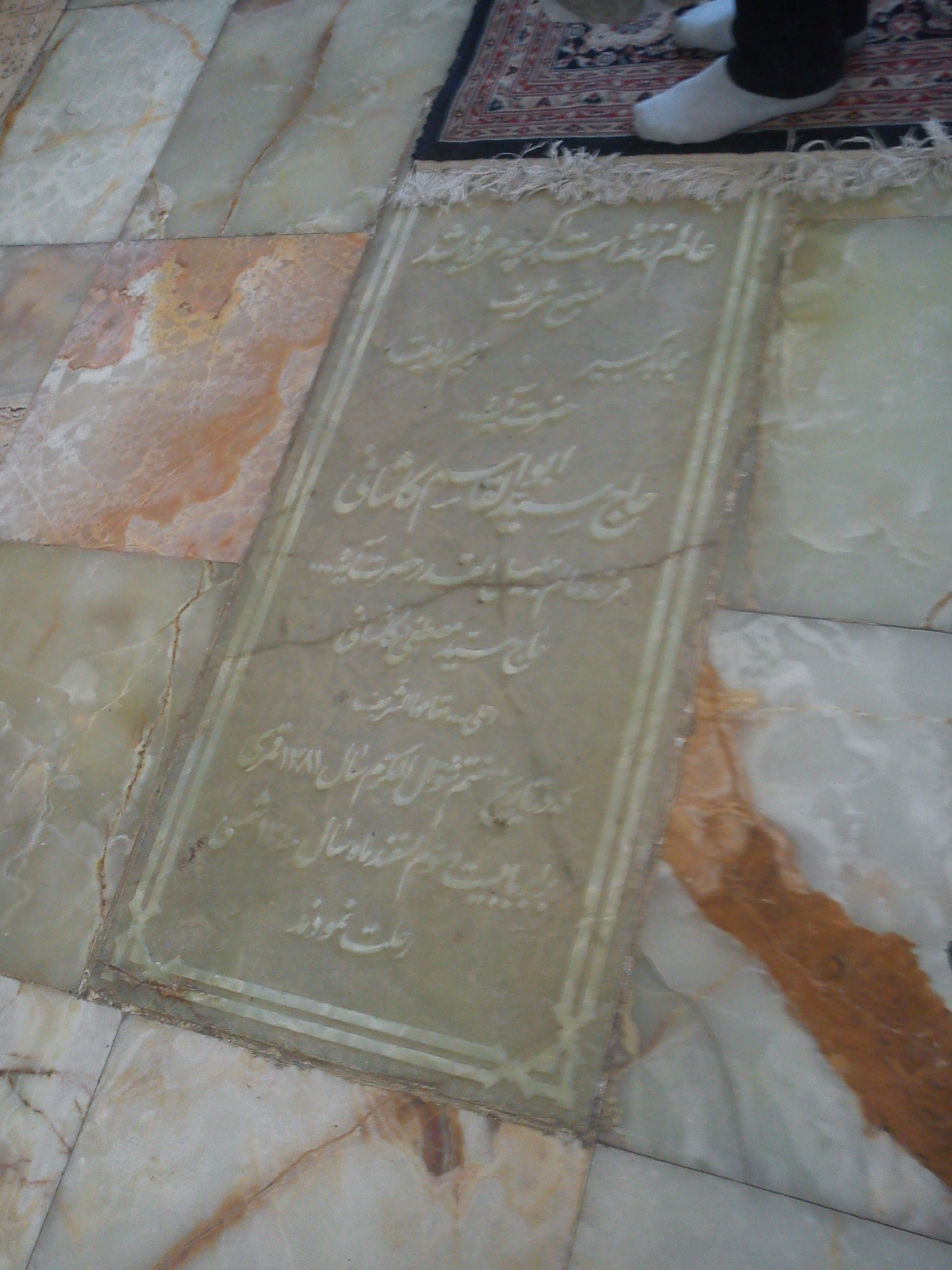 Abol-Ghasem Kashani tomb